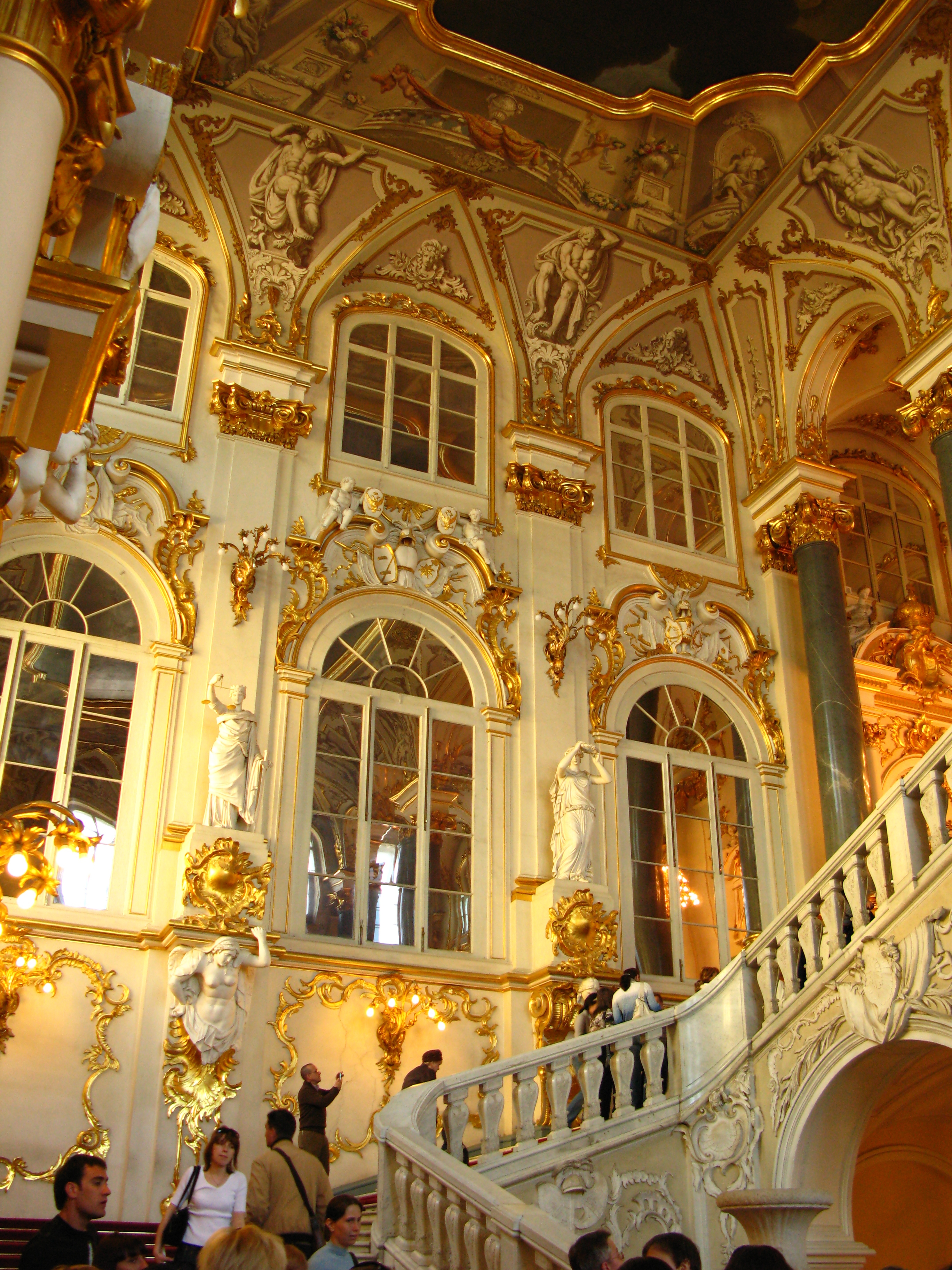 Stairs, Ermitage. St. Peterburg, Russia.